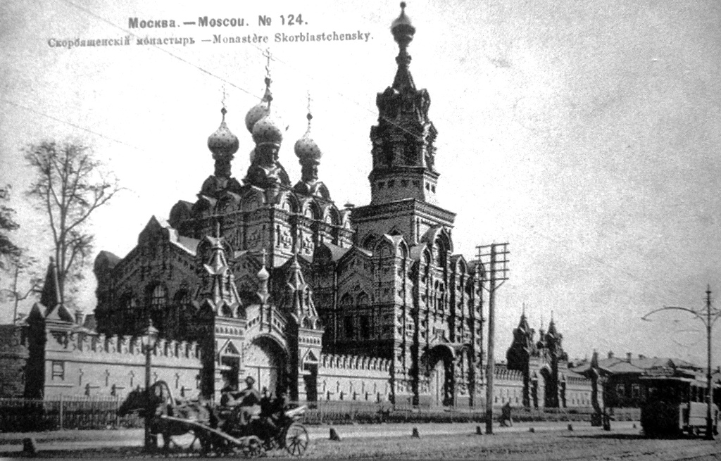 Skorbyashensky monastery, Moscow